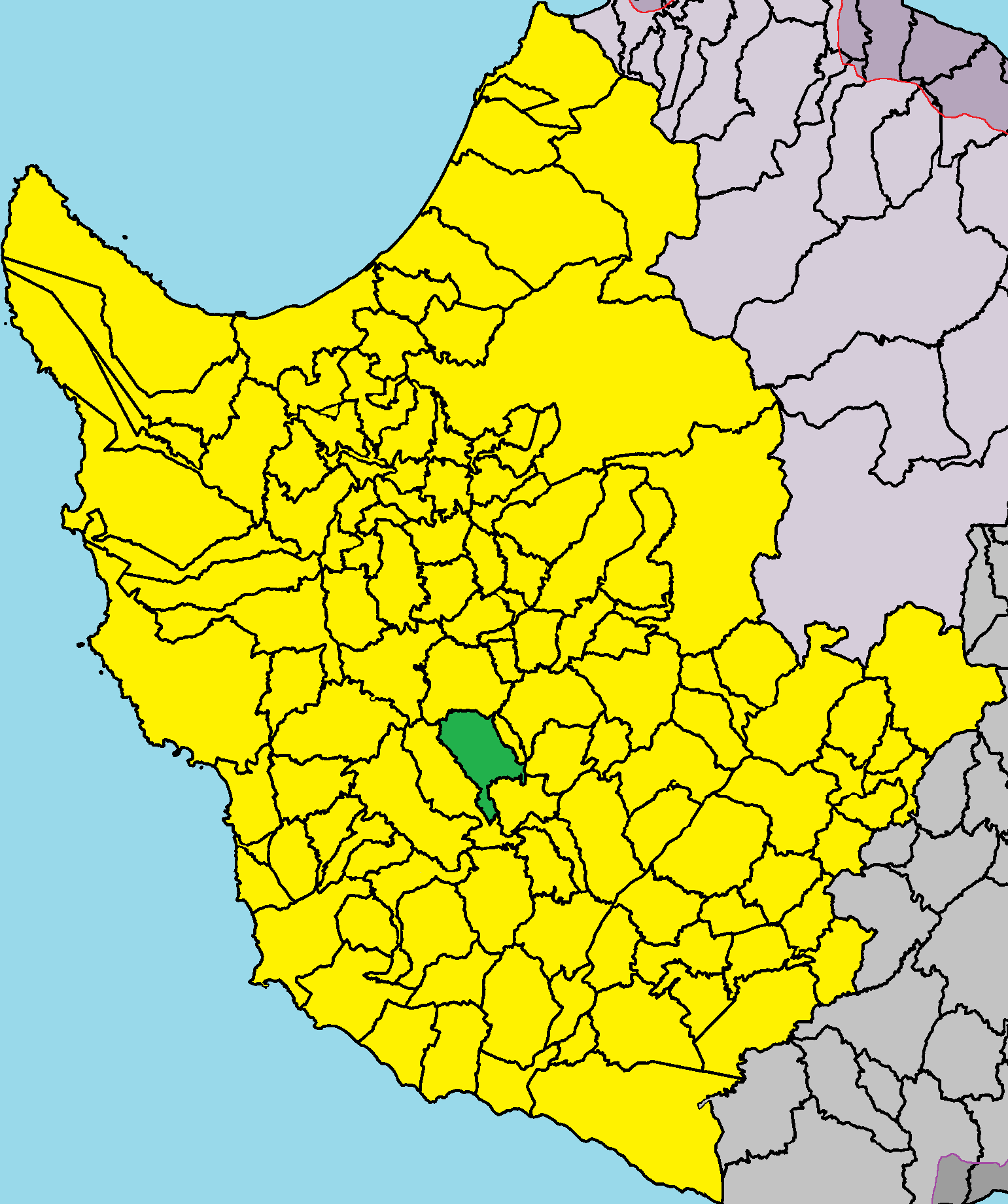 Letymvou in Paphos District.